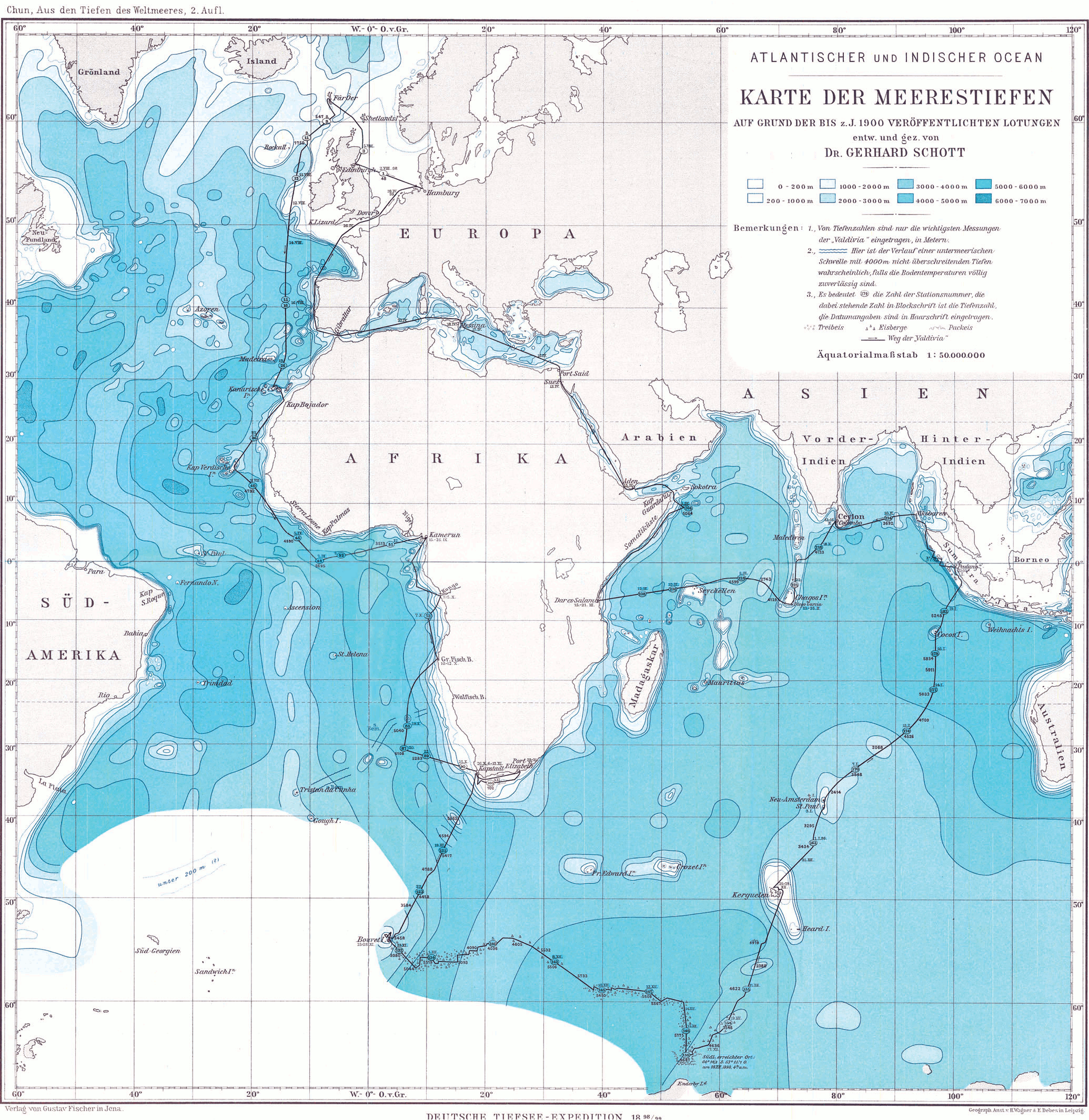 Route of German deep-sea Expedition with vessel Valdivia 1898-1899